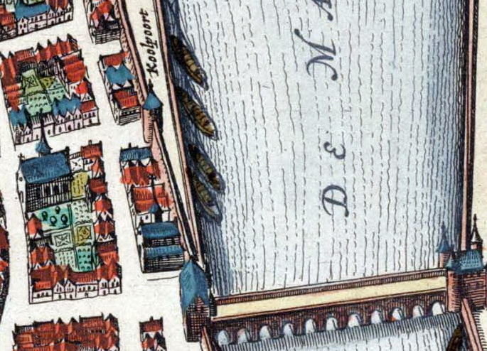 Maastricht, the Netherlands. Detail of a map of Maastricht from the Atlas van Loon (1649), showing the leftbank of the Meuse river with the Medieval bridge. Between Dinghuis (center left) and Jodenpoort or Koolpoort is Jodenstraat (Jewsstreet).